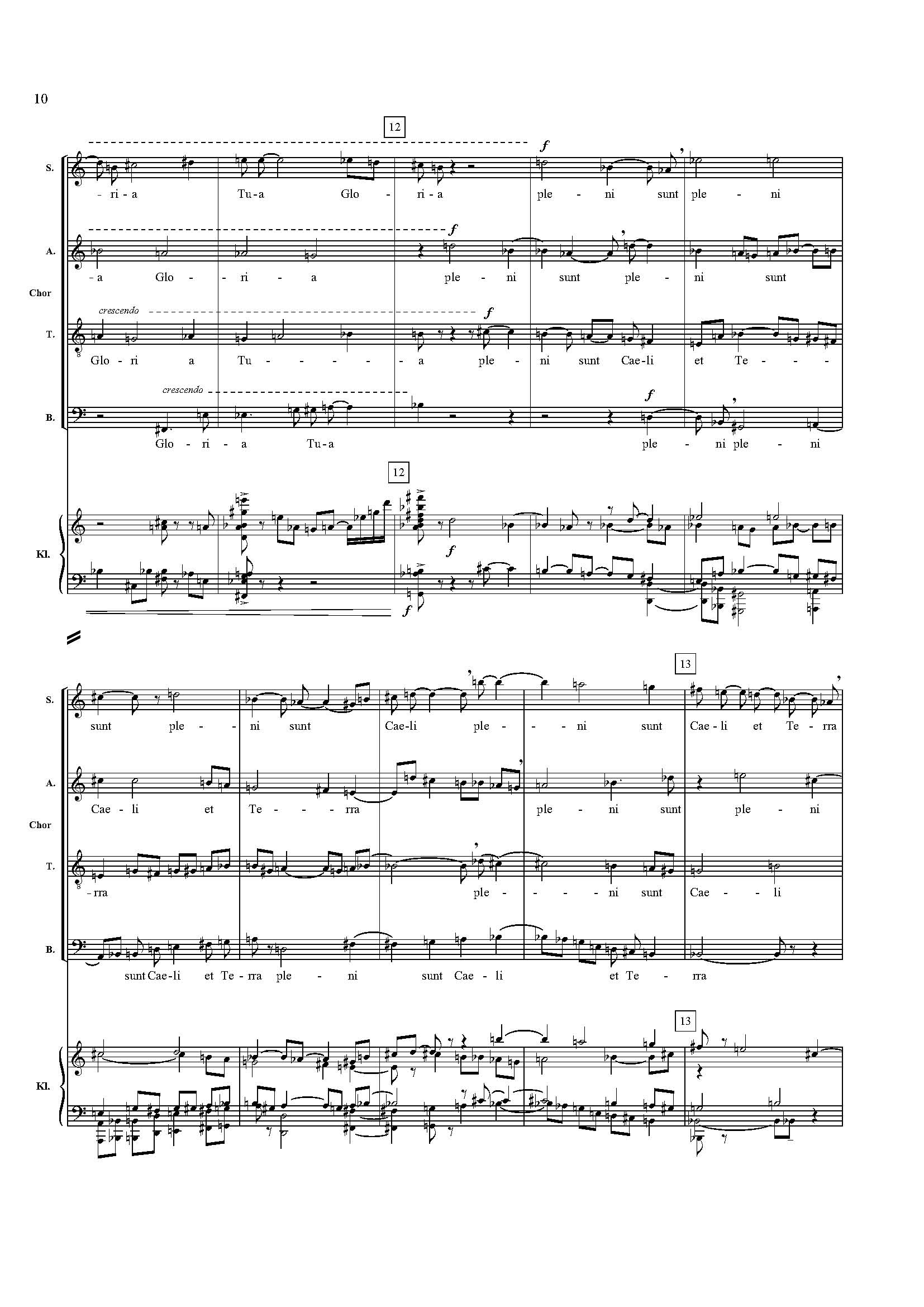 Page of "Sanctus" of the "Bonner Messe" by Christophe Looten.